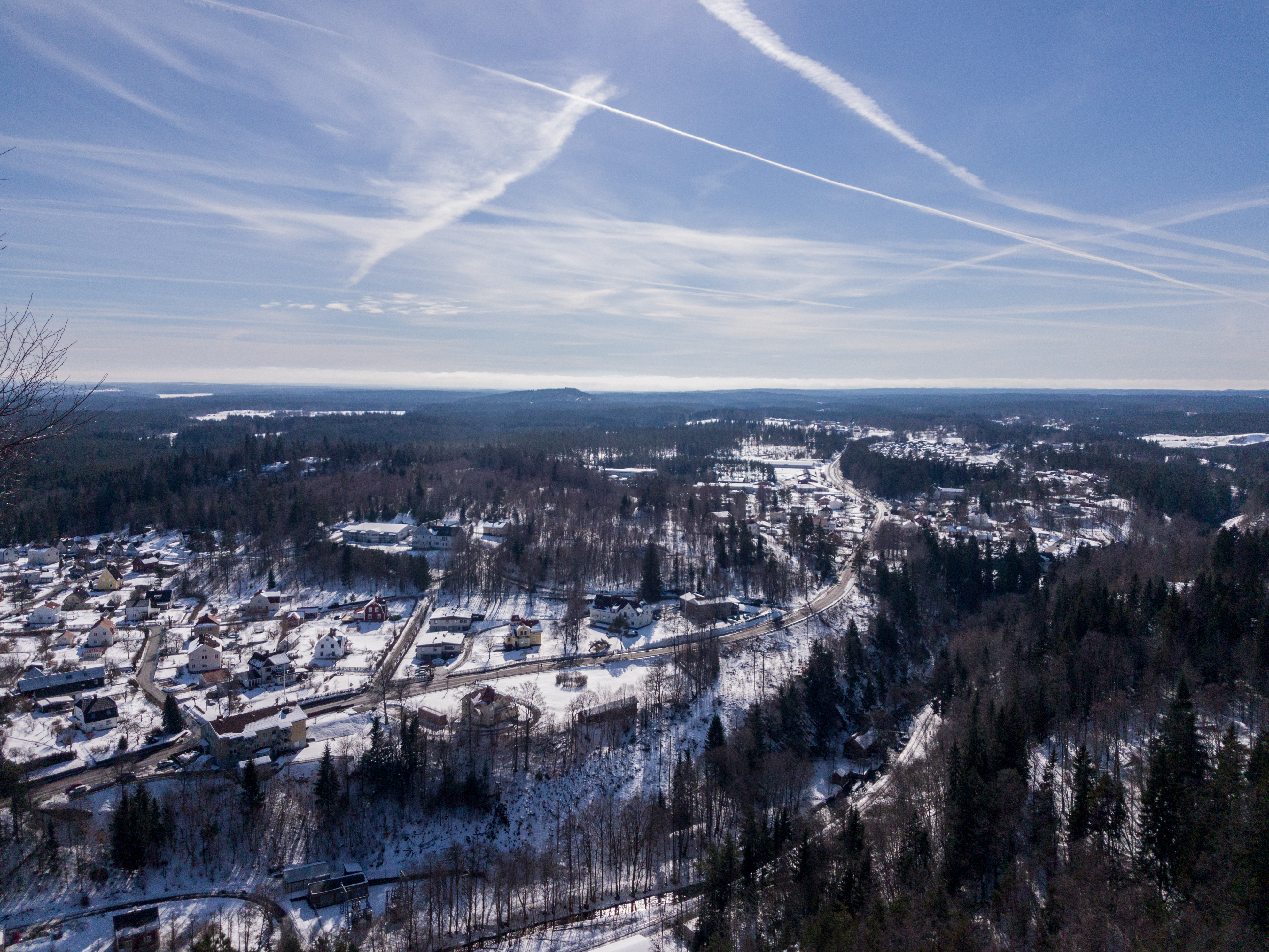 The highest point in the Jönköping municipality.